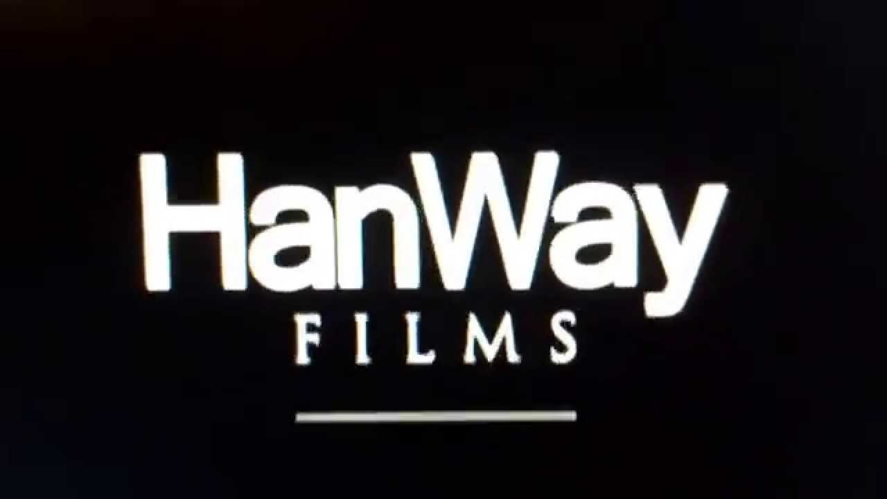 is an independent British international sales, distribution and marketing company specializing in theatrical feature films and owned by film director and producer Jeremy Thomas